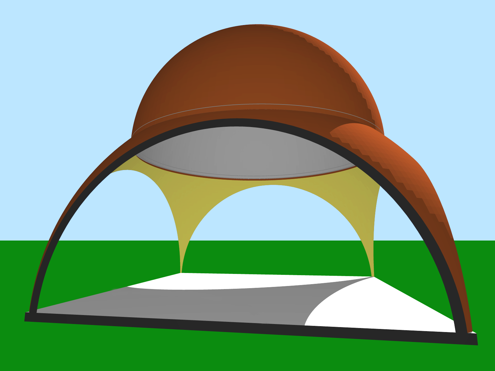 Dome on pendentive (marked with yellow). The model and rendering was created with ArchiCAD 10. Some color correction was done with Photoshop 8.0.